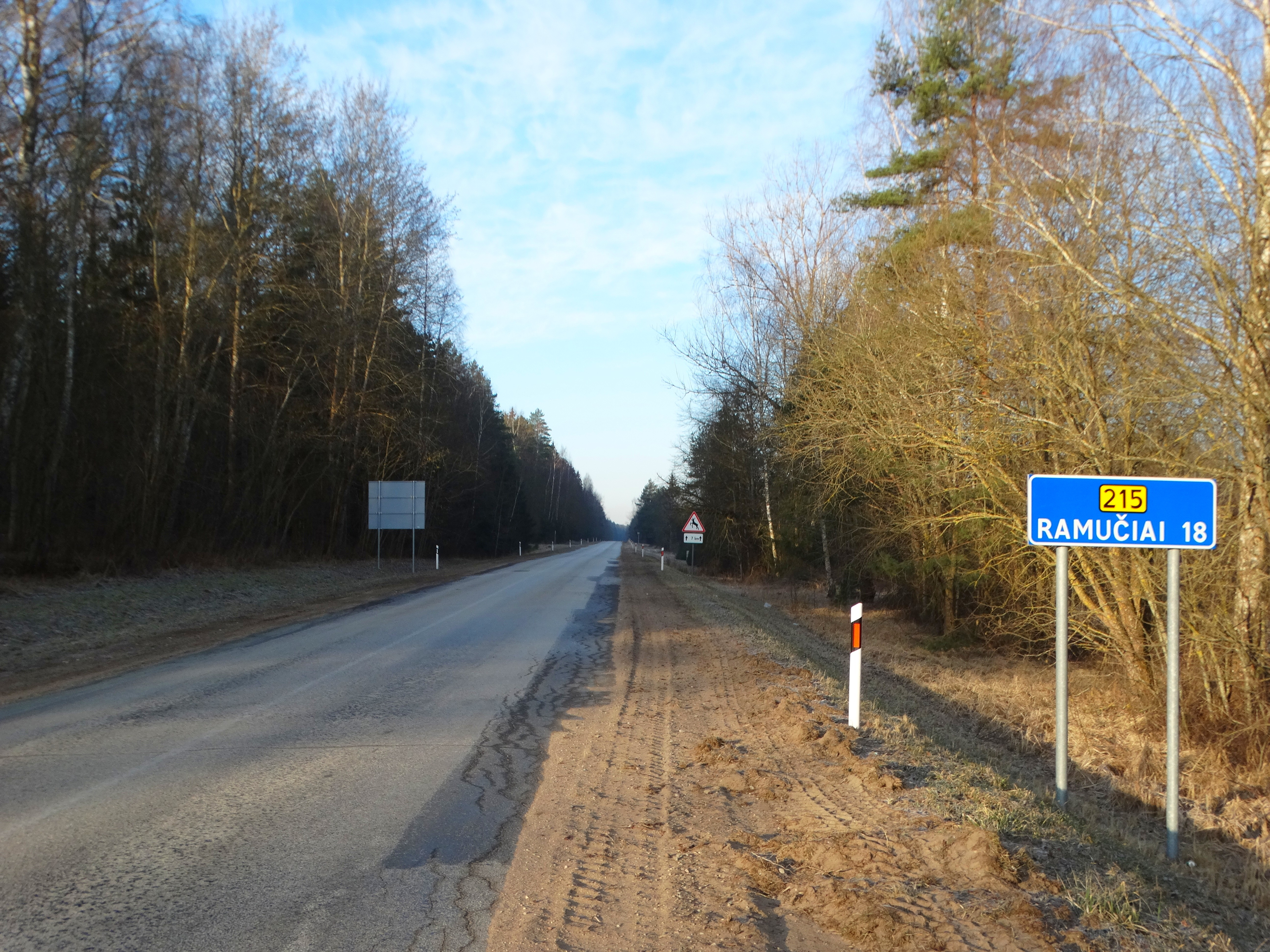 Regional road 215, by Bubiai, Šiauliai district, Lithuania